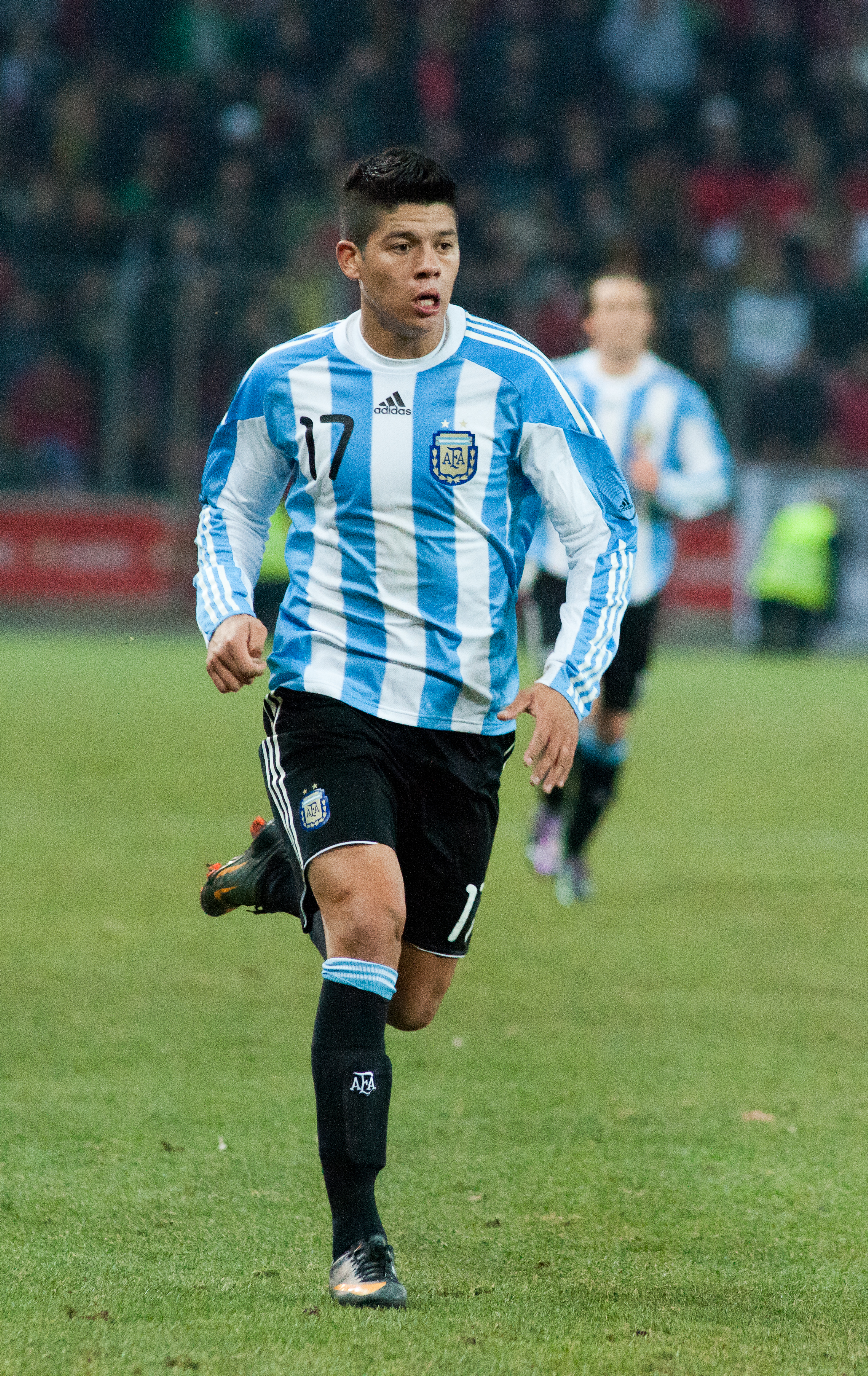 The making of this document was supported by Wikimedia CH. (Submit your project!) For all the files concerned, please see the category Supported by Wikimedia CH. Portugal vs. Argentina, 9th February 2011